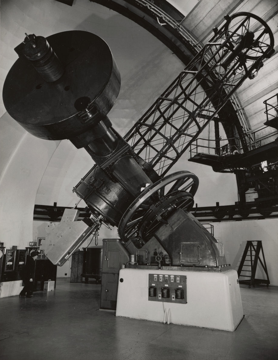 Dominion Astrophysical Observatory Telescope in Victoria, British Columbia. From Carlyle Smith Beals fonds, 1930-1977, National Archives of Canada.